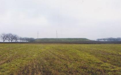 Suvorov Hill, Transnistria, Moldova